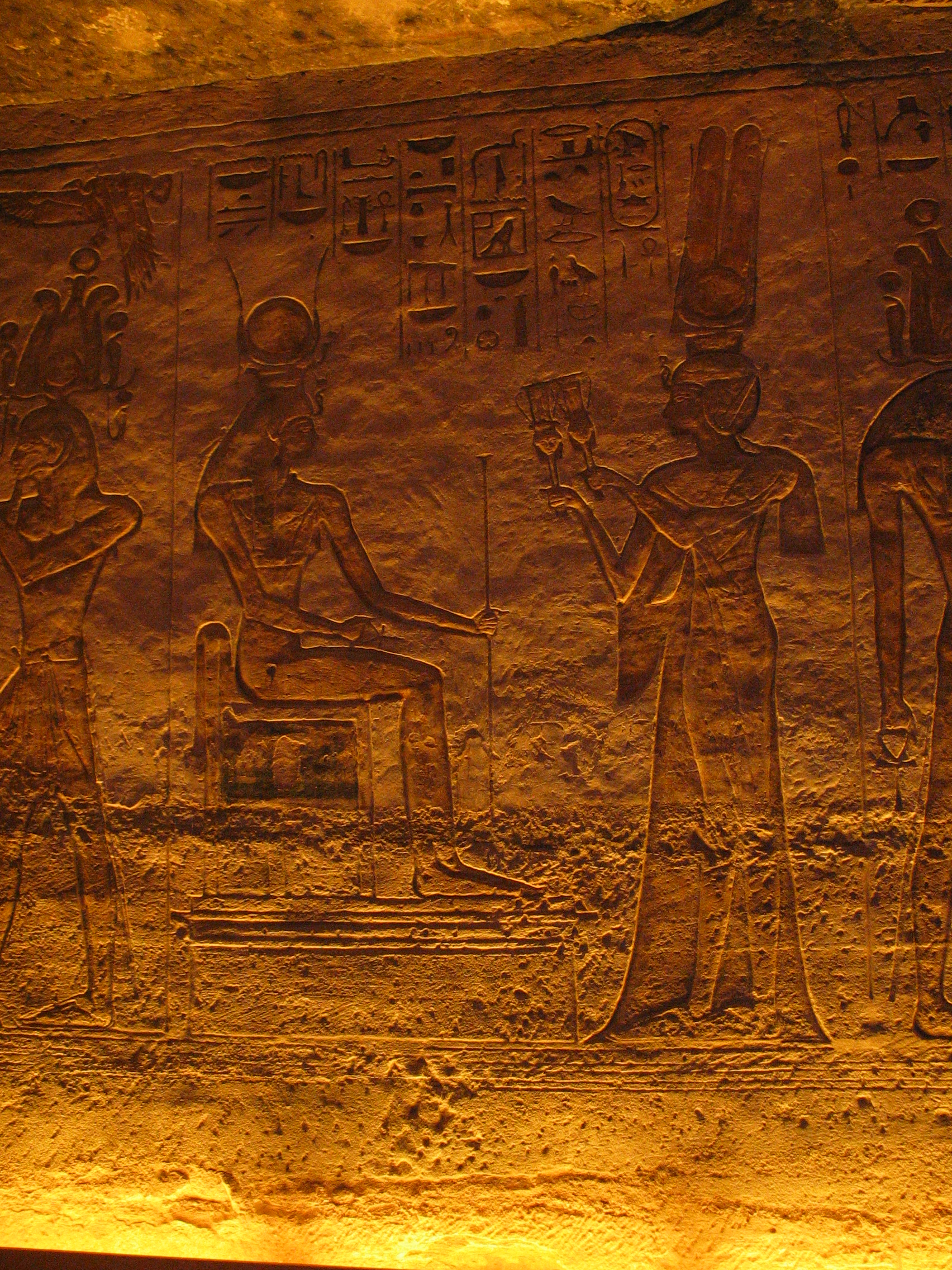 Nefertari offering sistrums to the seated goddess Hathor in the smaller temple at Abu Simbel.